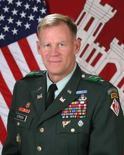 LTG Carl A. Strock [1]